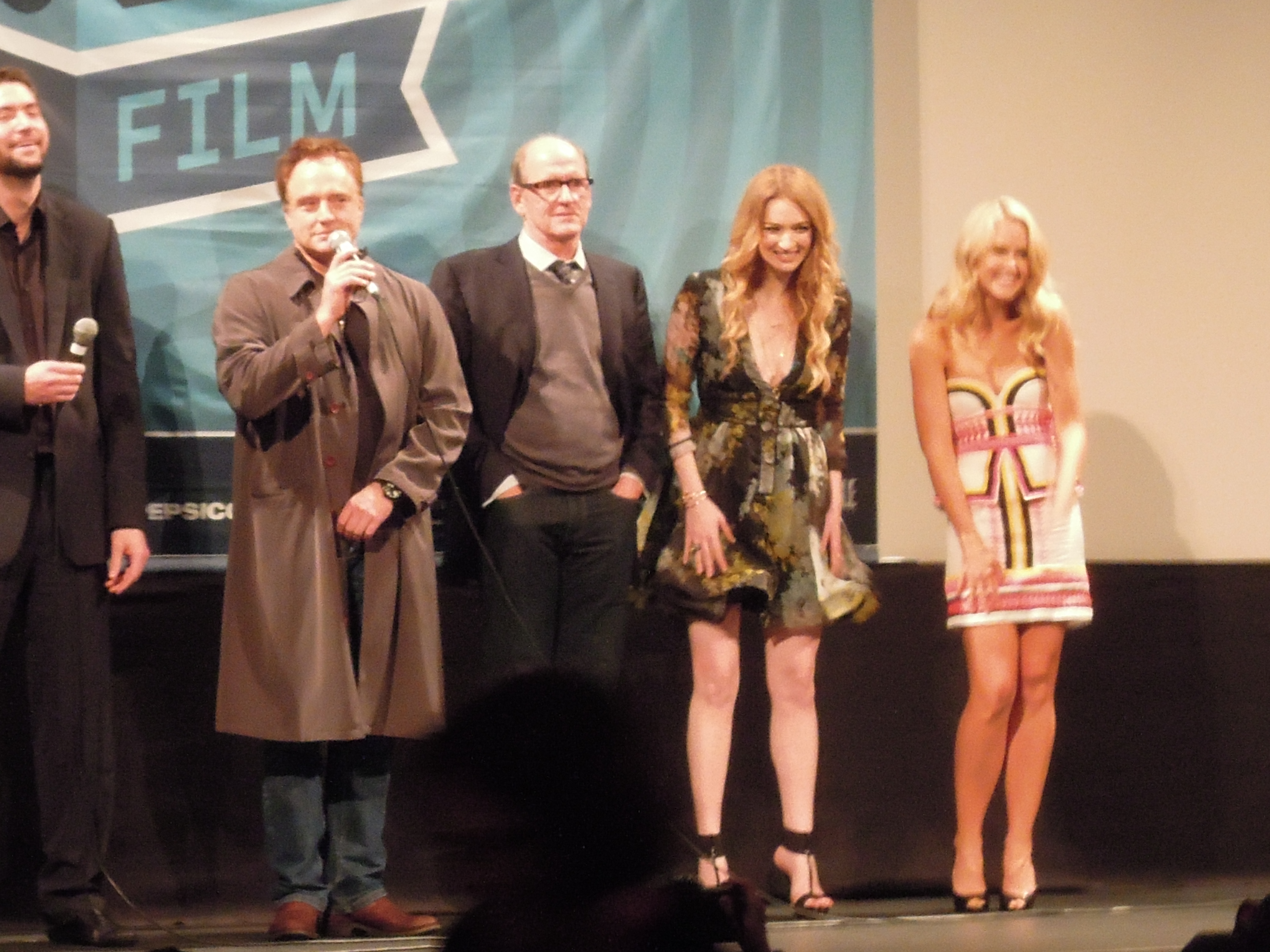 Drew Goddard, Bradley Whitford, Richard Jenkins, Kristin Connolly, Anna Hutchison